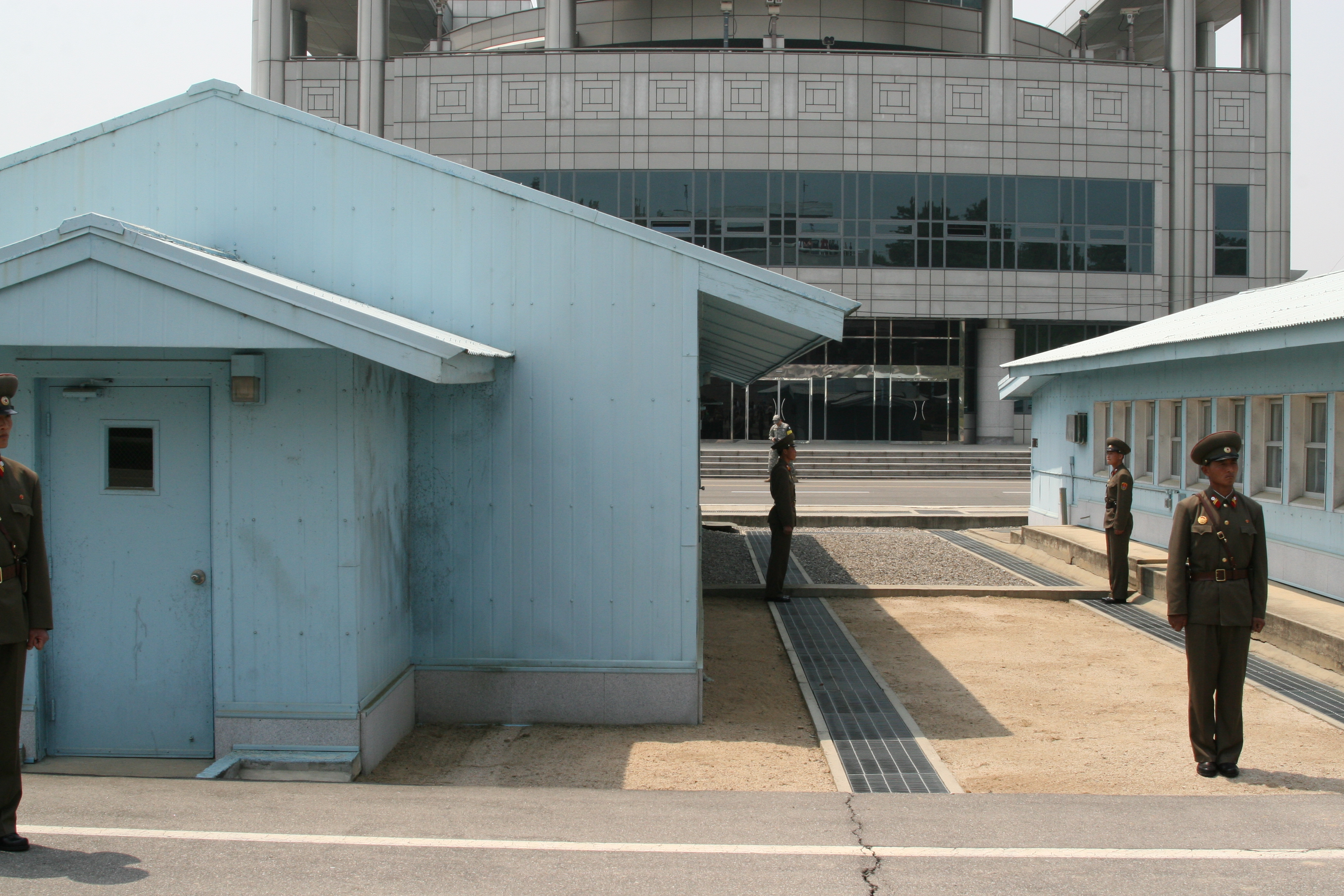 North Korean soldiers, guarding us from the evil americans on the other side. An american soldier can be seen on the other side of the border, checking his camera after taking a picture of me, taking a picture of him.